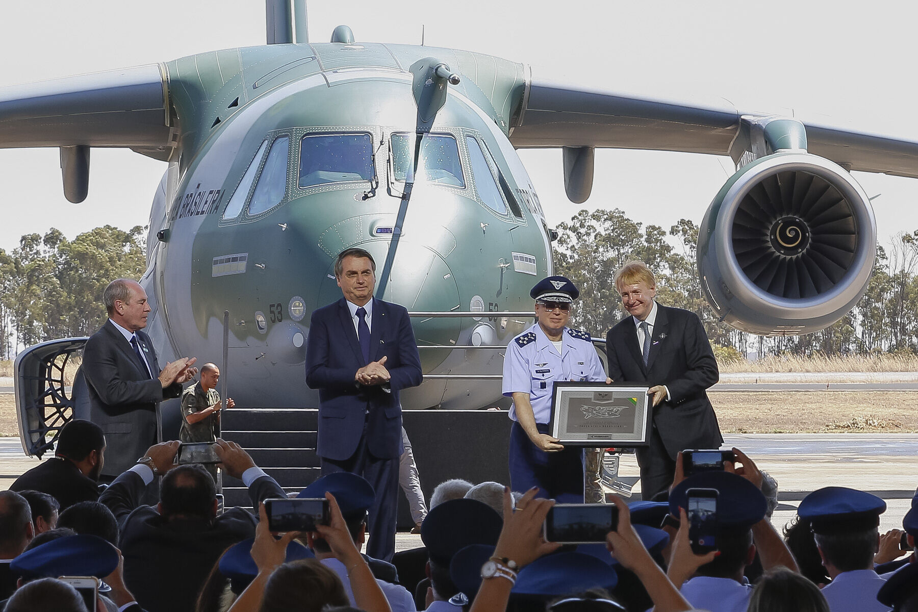 Presidente Jair Bolsonaro na entrega do primeiro KC-390a à FAB, em 04 de Setembro de 2019.